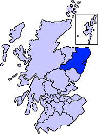 Modified version of map originally drawn by User:Morwen, highlighting the Aberdeenshire and Aberdeen City group of council areas, used for drawing up electoral constituencies.